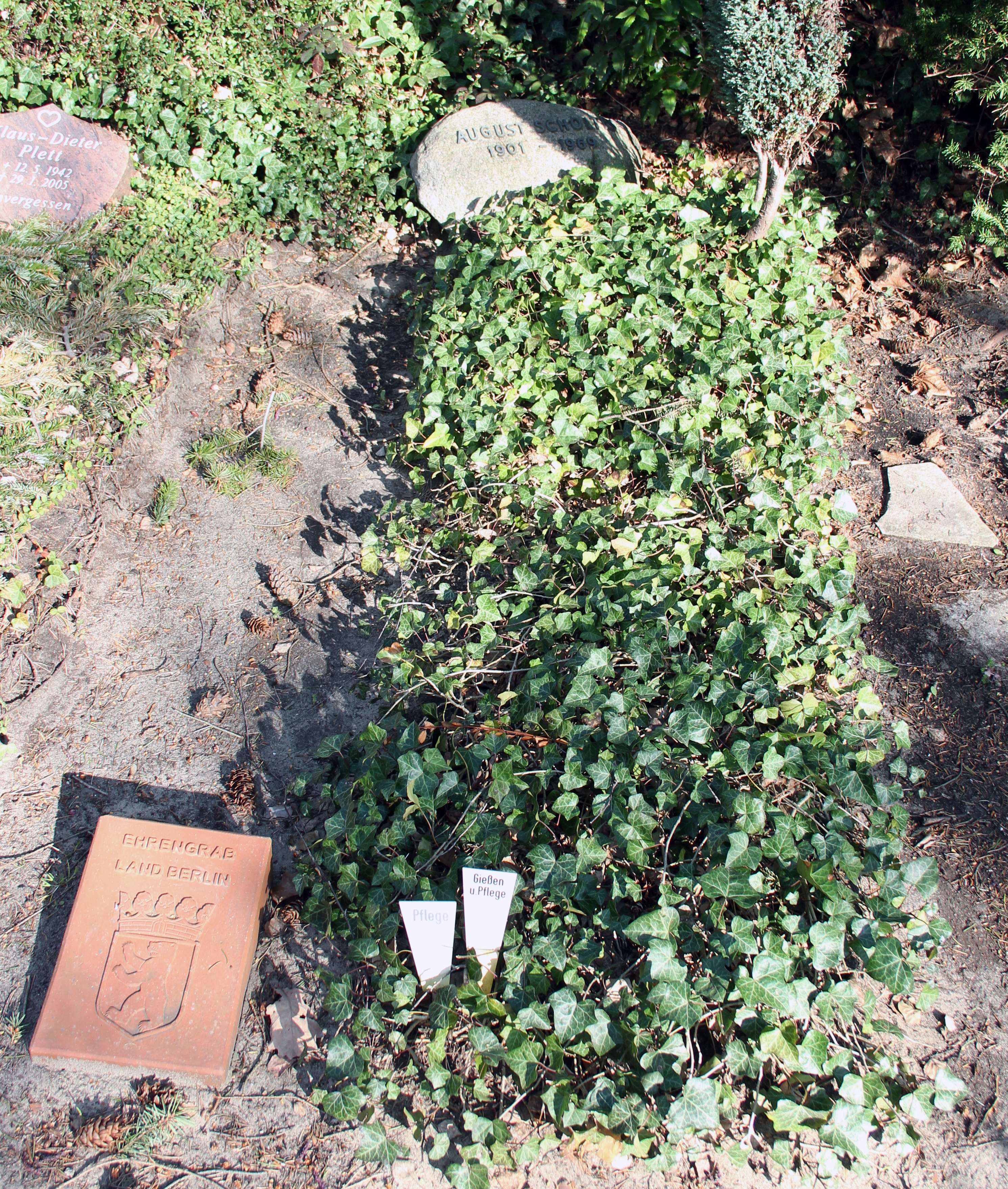 Grave of honor, August Scholtis, Trakehner Allee 1, Berlin-Westend, Germany